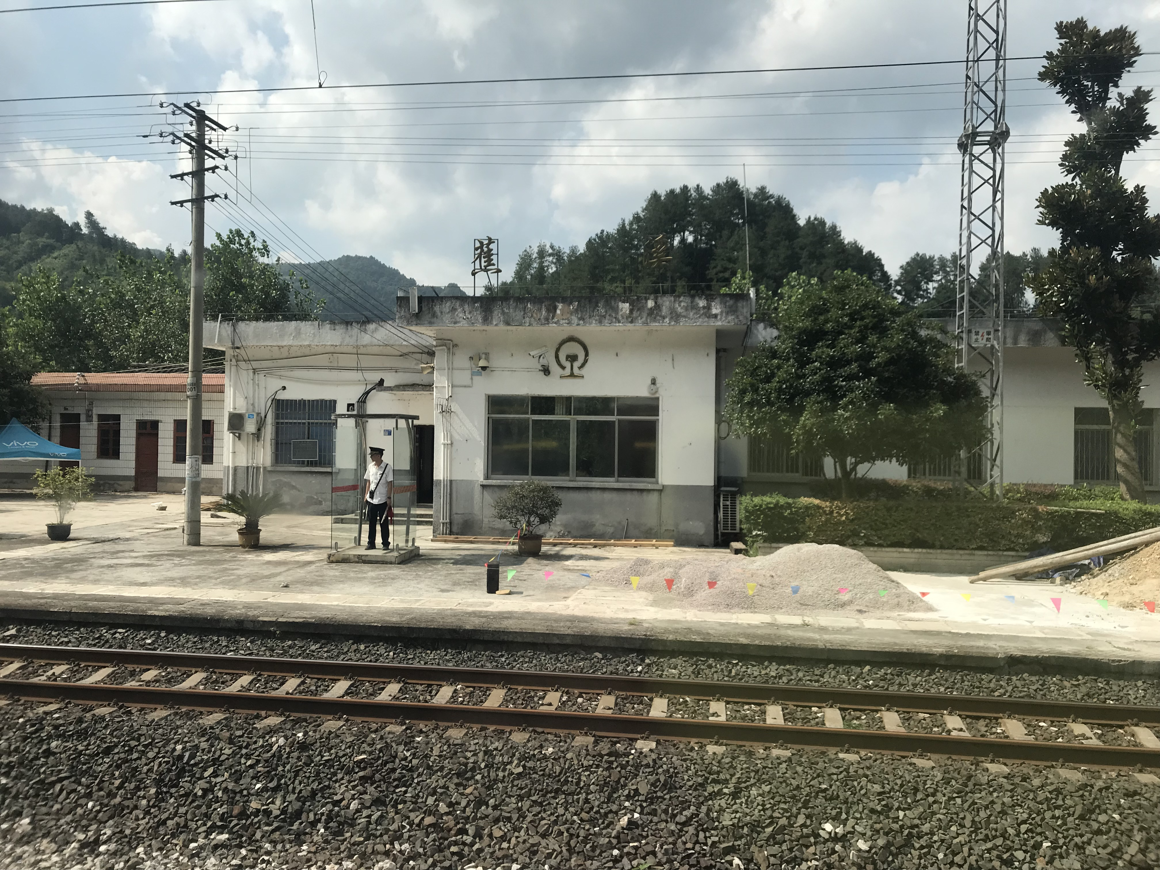 Again, stopped here for a while...